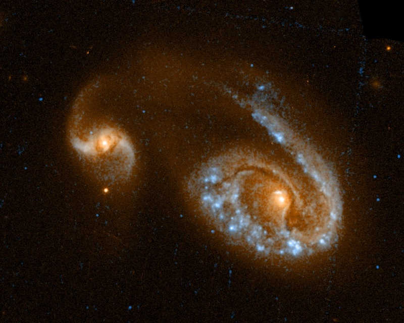 The galaxies NGC 5279 (left) anf NGC 5278 (right). Color rendering is done by by Aladin-software (2000A&AS..143...33B.)